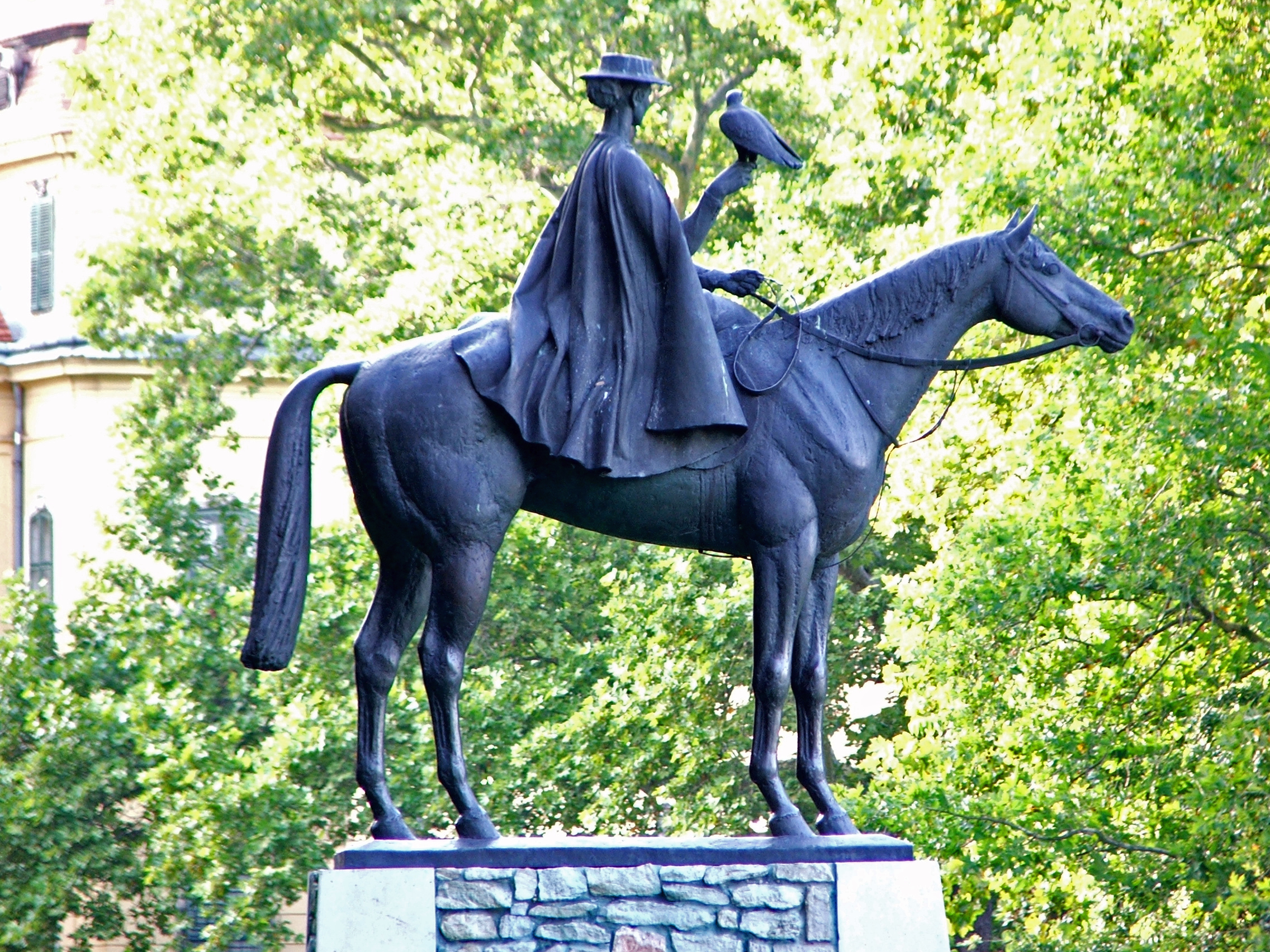 „Tatai Diana“ statue, before the Esterhazy palace in Tata